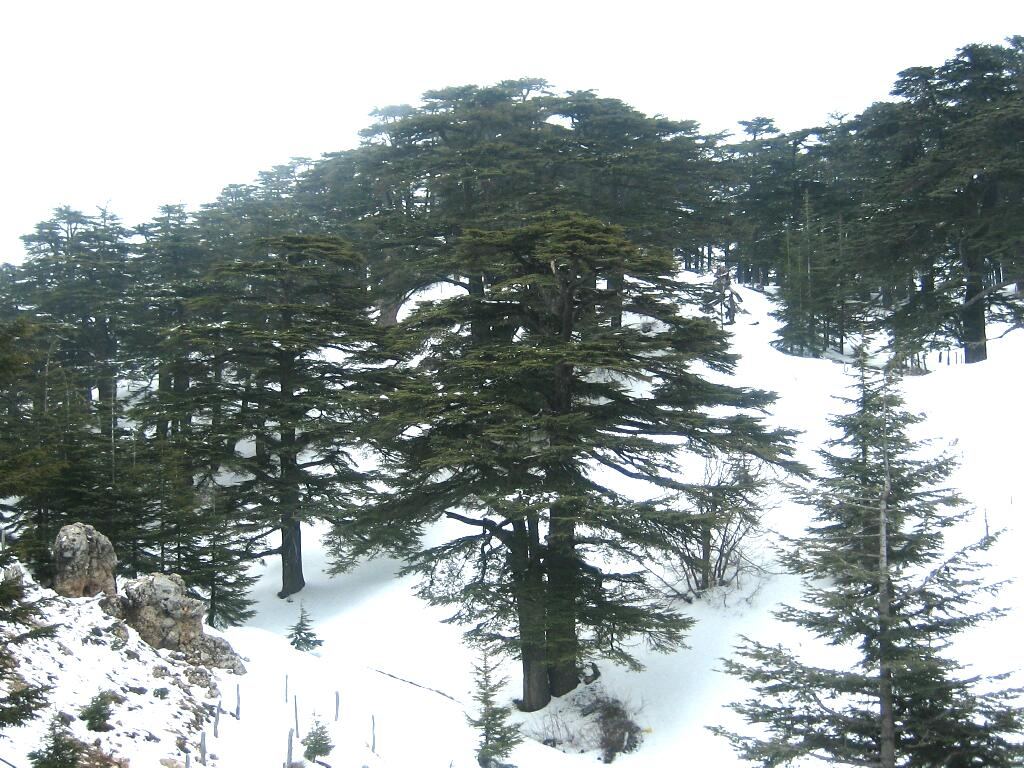 Al Arz above Bsharri (Forest of the cedars of God)